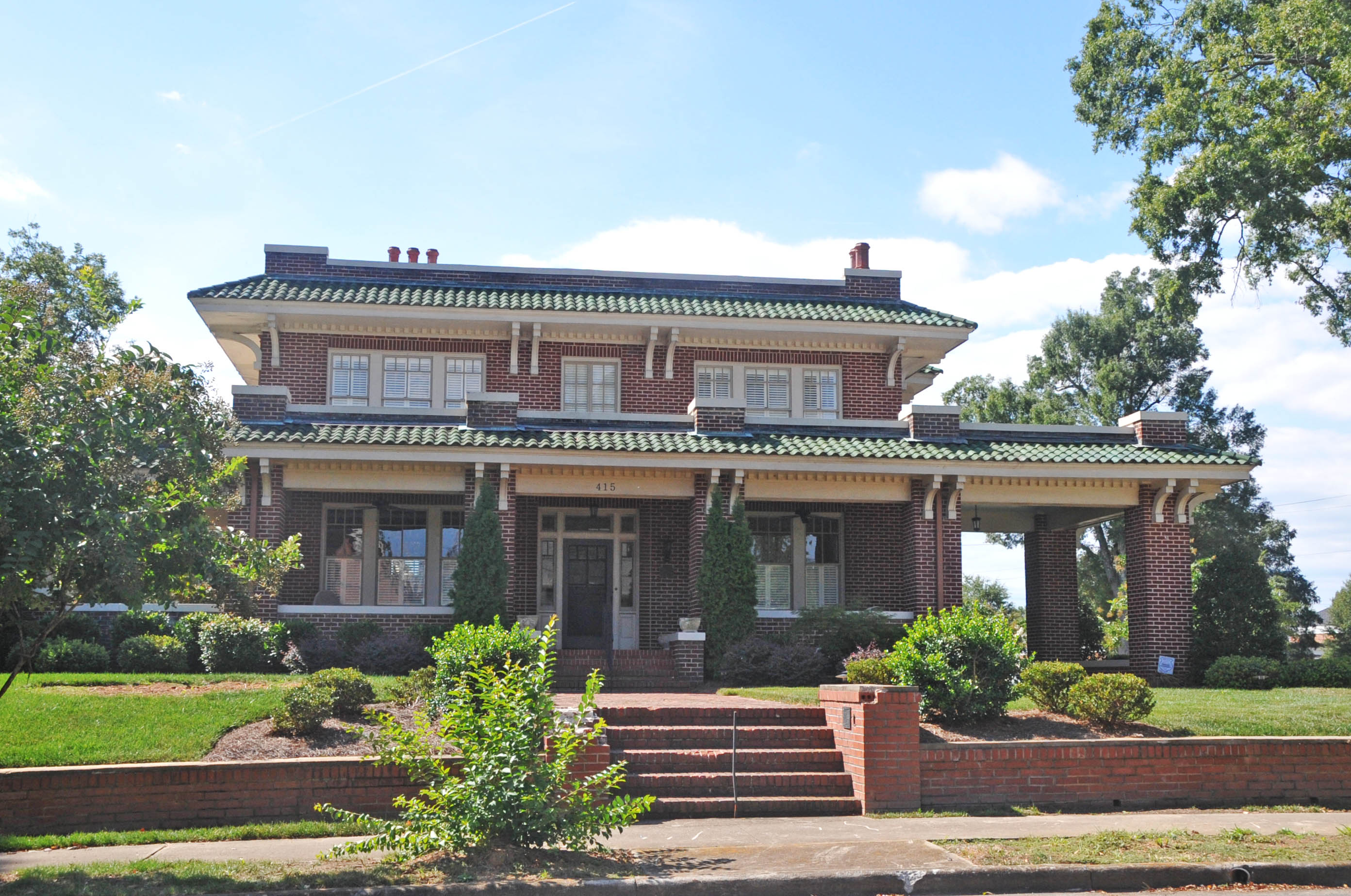 FIRST STARTED IN 1924 AND CONTINUED UNTIL 1960 WNENMR. DENNING RETIRED AS GENERAL SUPERINTENDENT OF WISCASSETT MILLS